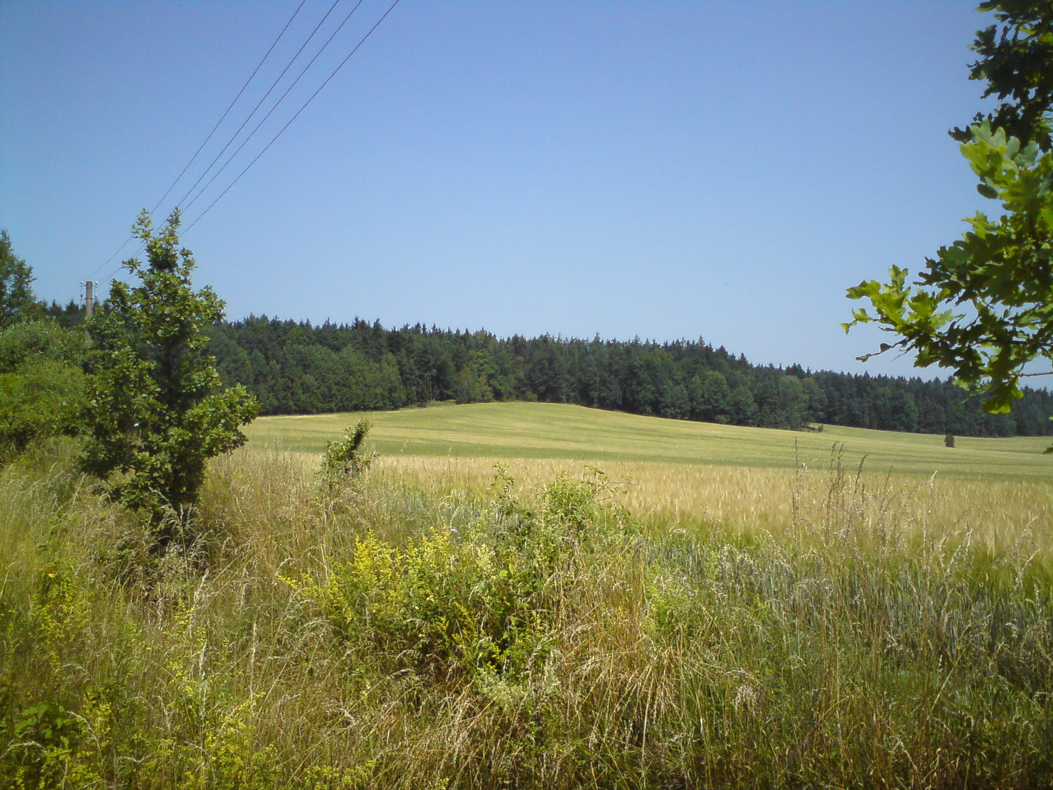 Hill of Baba (570 m) as seen from village of Vitín, České Budějovice District, South Bohemian Region, Czech Republic